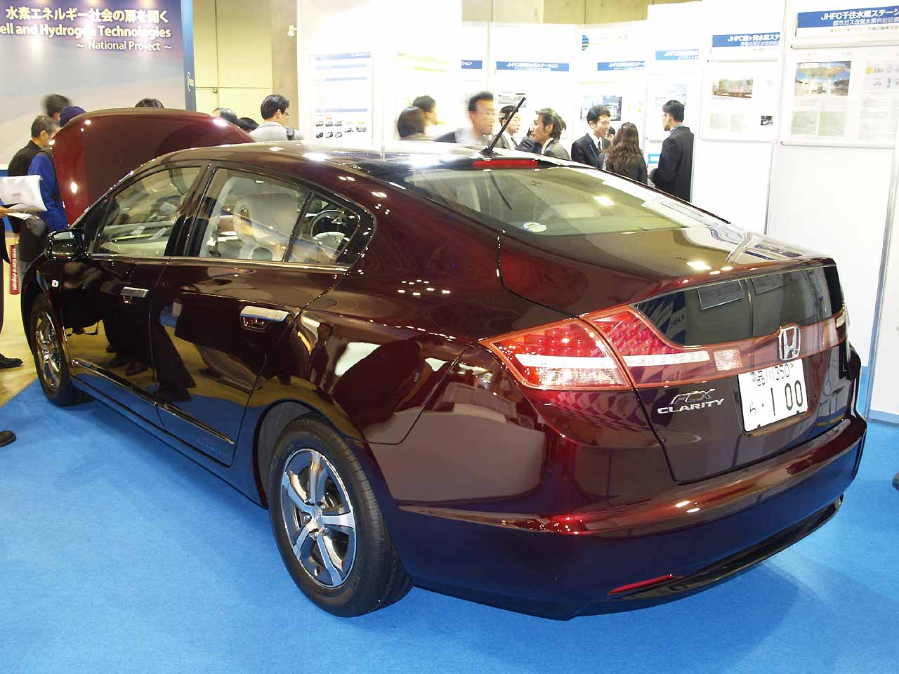 Honda FCX Clarity, view from rear-left. Shown in FC EXPO 2009.